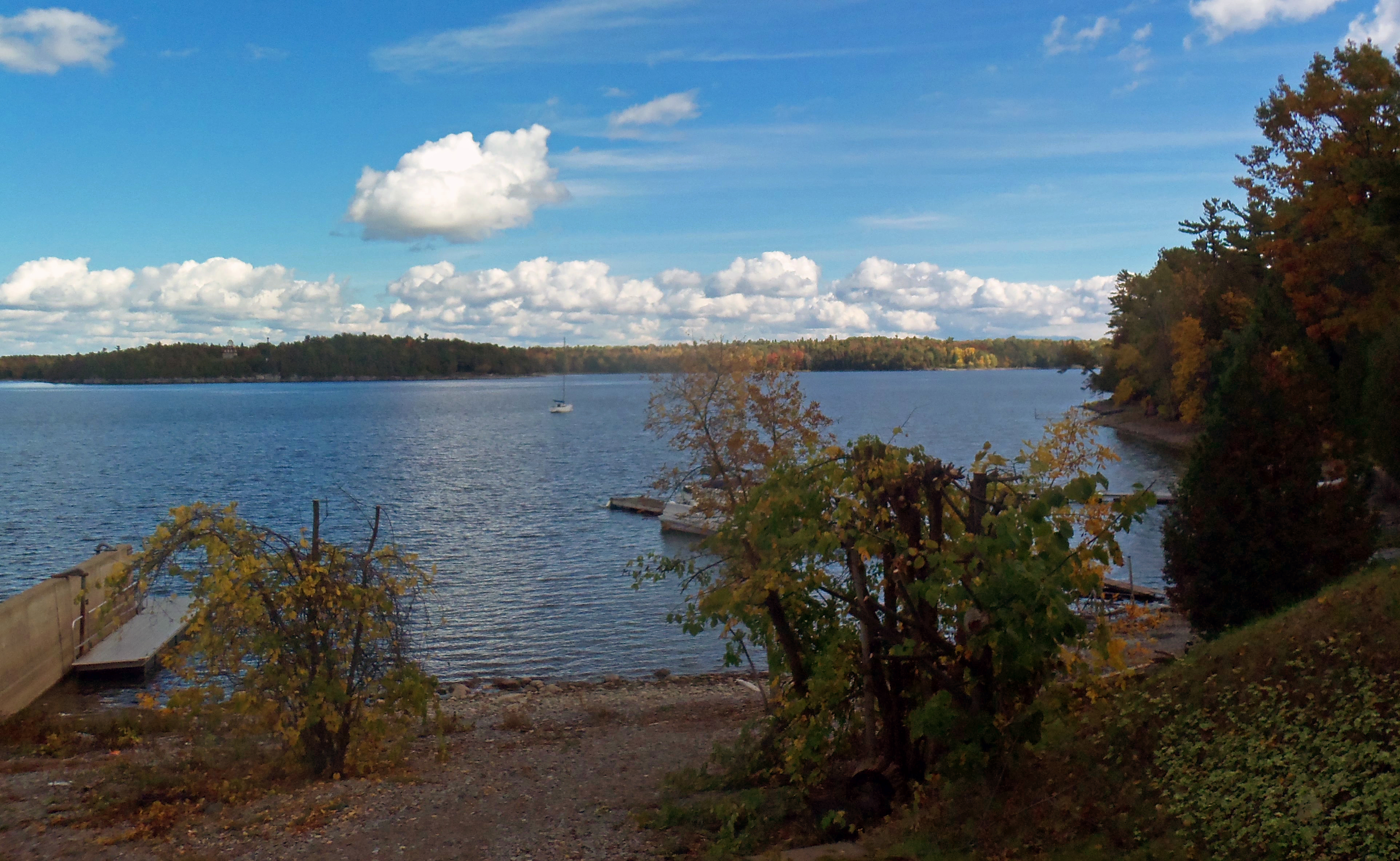 Valcour Bay in Lake Champlain off Peru, NY, USA. Designated a U.S. National Historic Landmark as the site of Benedict Arnold's naval victory over the British there in the Battle of Valcour Island during the Revolutionary War